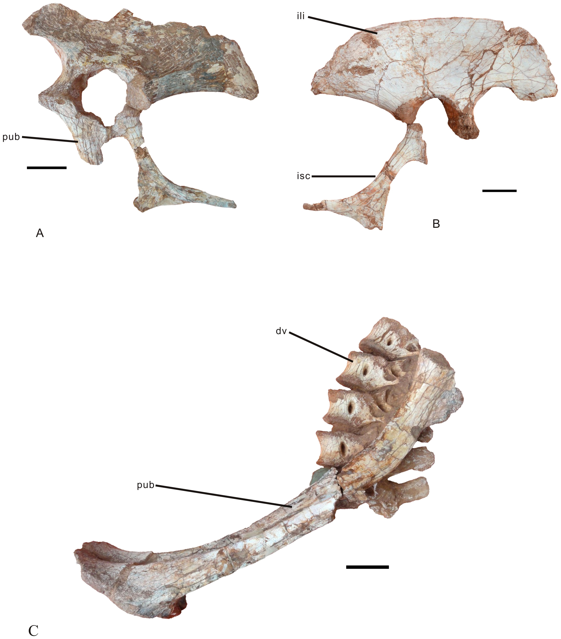 Pelvic girdle of Nankangia (GMNH F10003). A, Partial left pelvis (missing dorsal edge of ilium and most of pubis) in lateral view. B, Partial right pelvis (missing pubis) in lateral view. C, Pubes in left lateral view. Abbreviations: dv., dorsal vertebrae; ili., ilium; isc., ischium; pub., pubis. Scale bar = 5 cm.